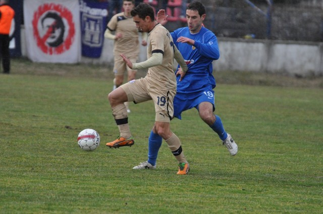 NK Dinamo Zagreb